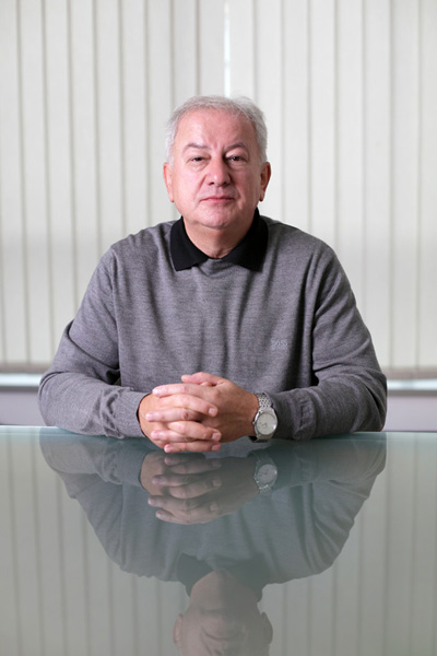 Beograd, 21. Mart 2011- Miodrag Zec, intervju. Foto: Saša Čolić